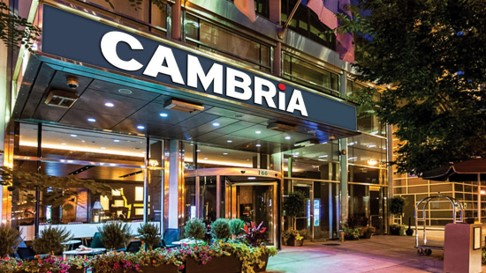 Cambria Chicago Magnificent Mile exterior Photo credit: Choice Hotels International, Inc.